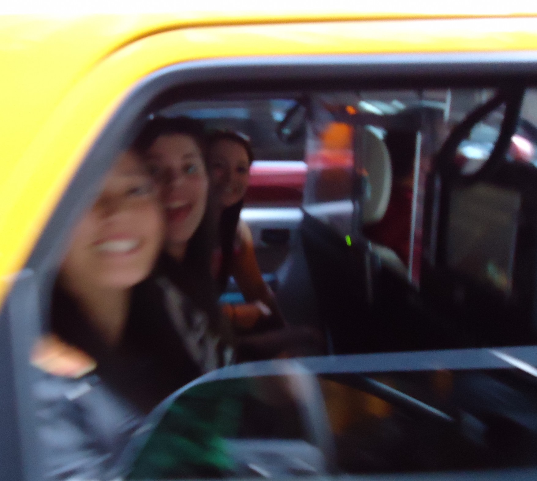 Women in a temporarily stopped taxicab, which was waiting for a traffic light, said "hello!" in a spirit of fun, and I replied by asking if they wanted to be in Wikipedia? They said "yes" enthusiastically. I turned my camera on and got this shot just as their taxi was driving off when the light changed. so the photo is slightly blurry. One asked "what article will we be in?" and I didn't get a chance to answer, but maybe some Wikipedians smarter than moi will figure out something.